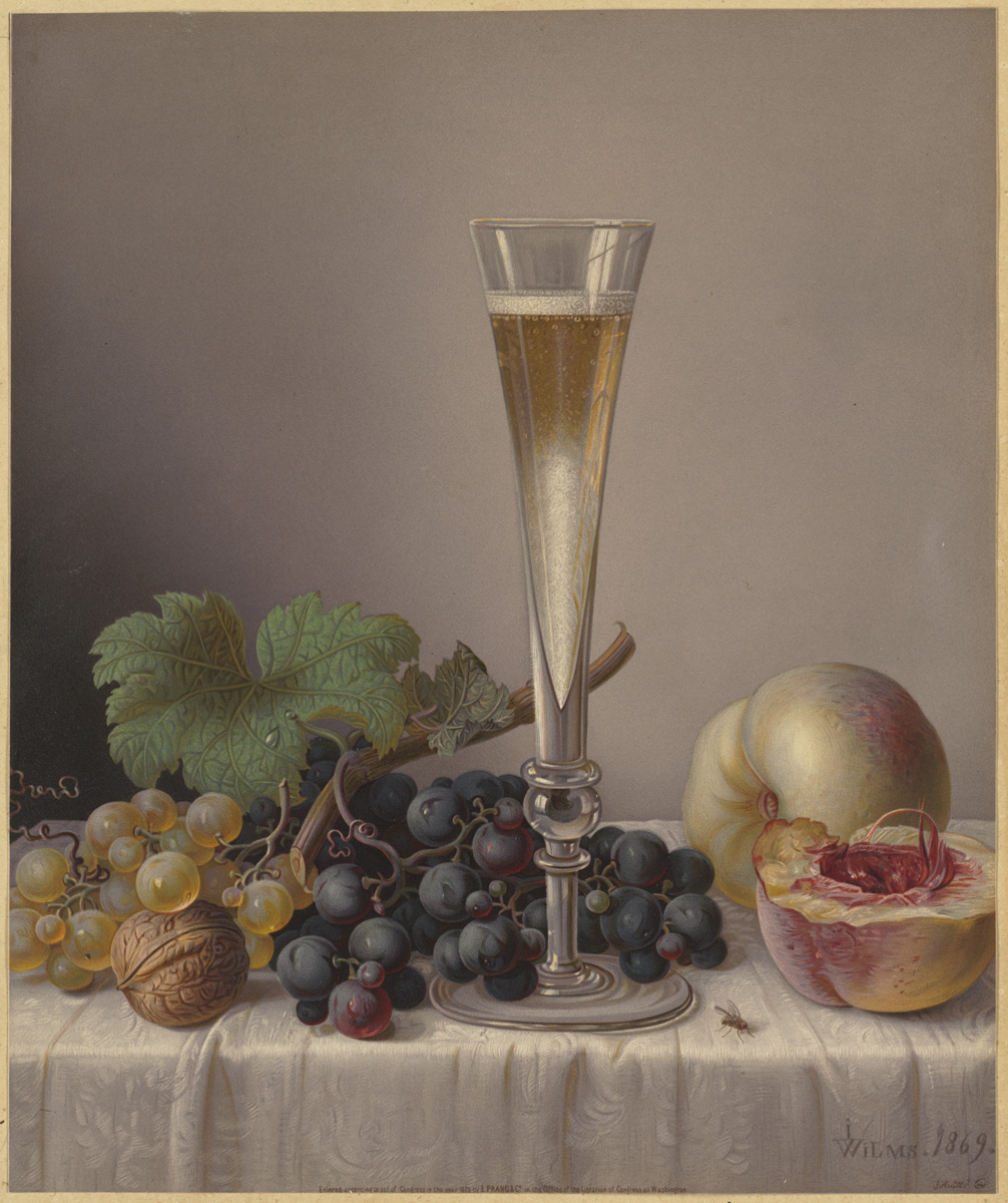 File name: 07_11_001460 Title: Dessert No. 7 Creator/Contributor: Wilms, Peter Joseph, 1814-1892 (artist); L. Prang & Co. (publisher) Date issued: Copyright date: 1873 Physical description note: Genre: Chromolithographs; Still life prints Location: Boston Public Library, Print Department Rights: No known restrictions Flickr data on 2011-08-03: Camera: Sinar AG Sinarback 54 FW, Sinar m License: CC BY 2.0 User: Boston Public Library BPL